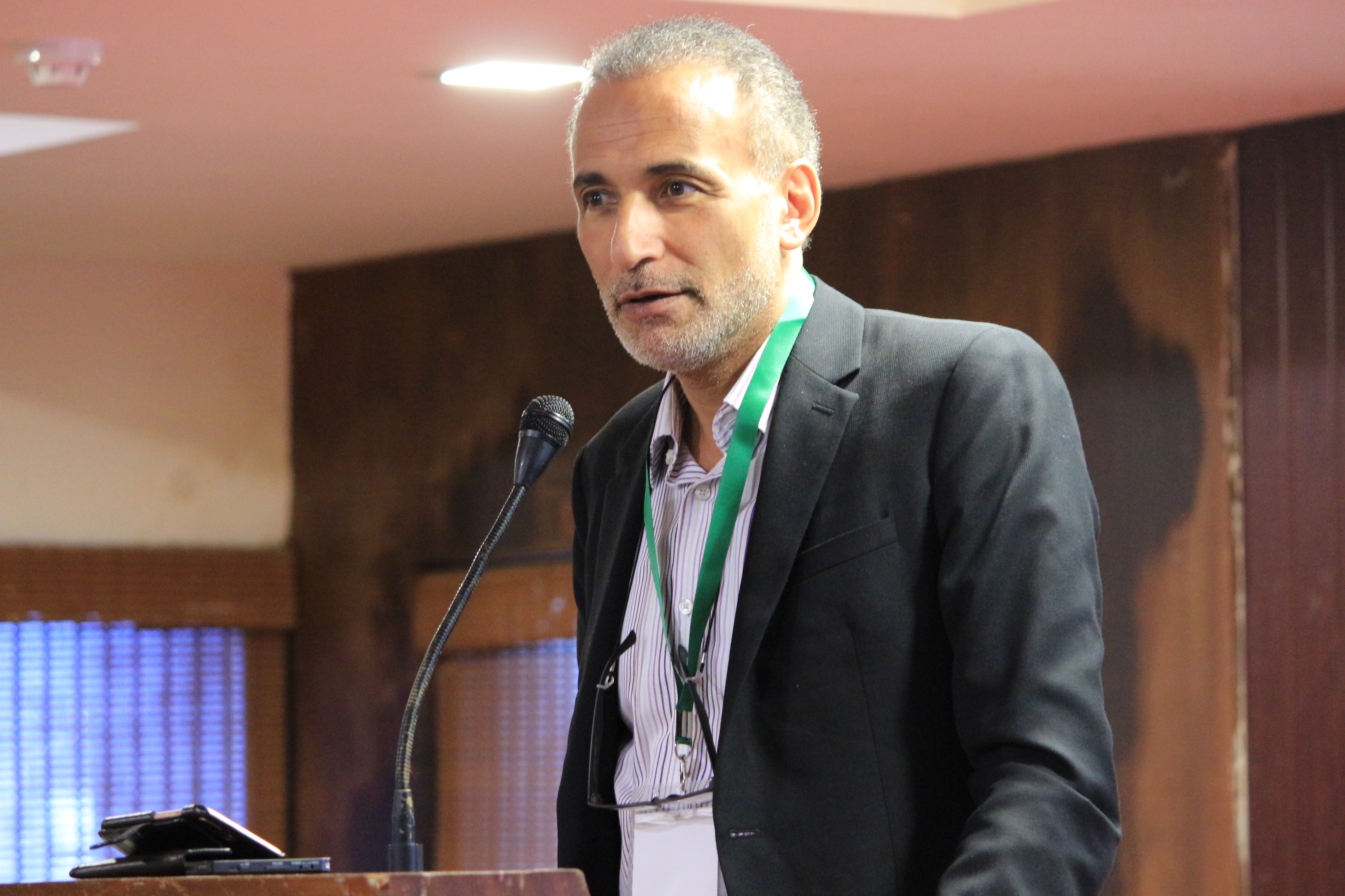 Tariq Ramadan (Arabic: طارق رمضان; born 26 August 1962) is a Swiss academic, philosopher and writer. He is the Professor of Contemporary Islamic Studies in the Faculty of Oriental Studies at St Antony's College, Oxford and teaches at the Faculty of Theology and Religion, University of Oxford.